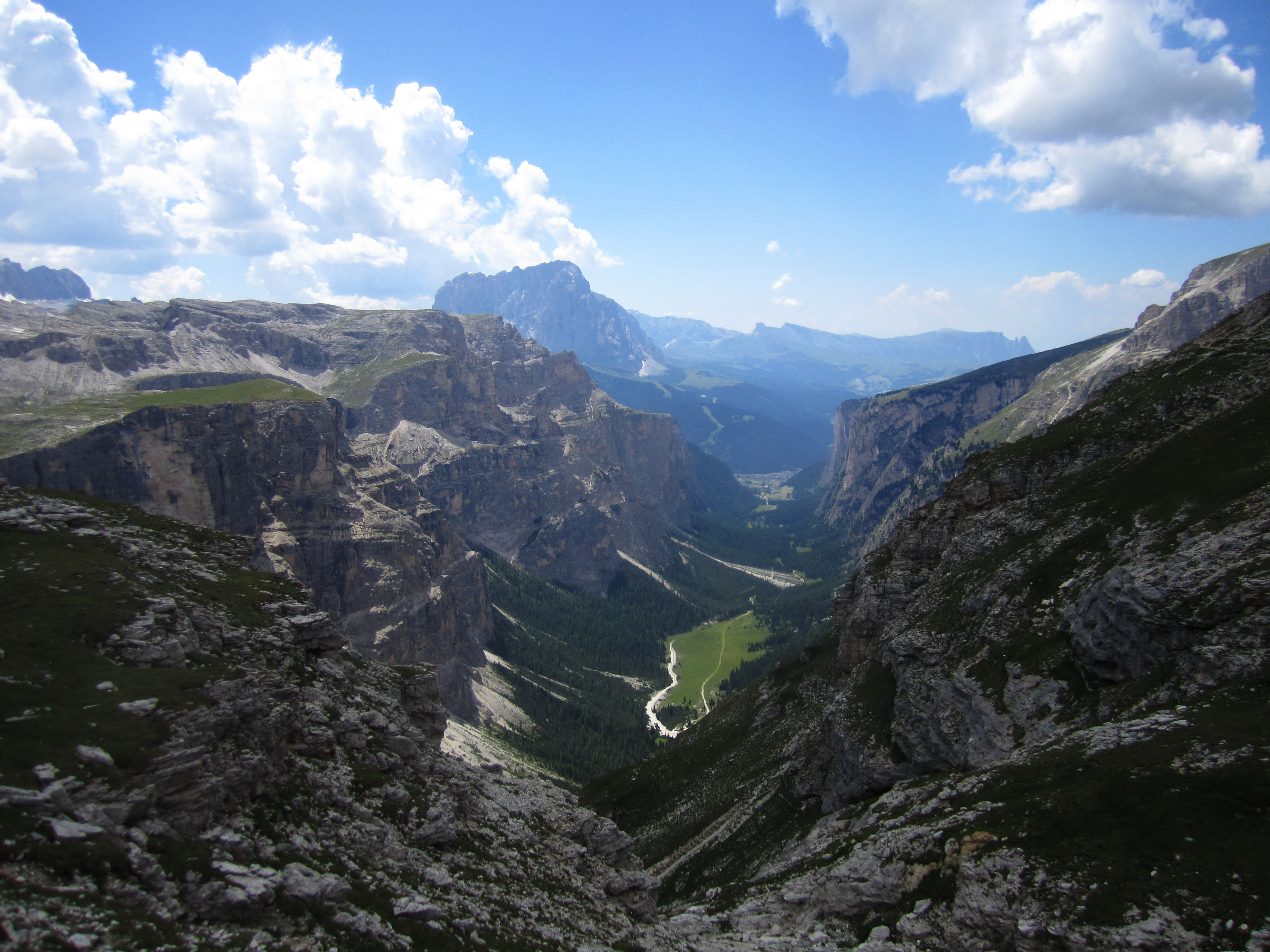 Langental from Puez Group